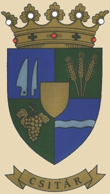 Coat of arms of Csitár, Hungary